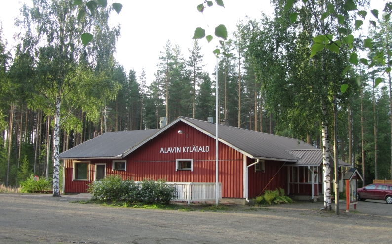 Alavi village house